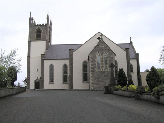 St Columbkille RC Church, Carrickmore. It is located at the north end of the village